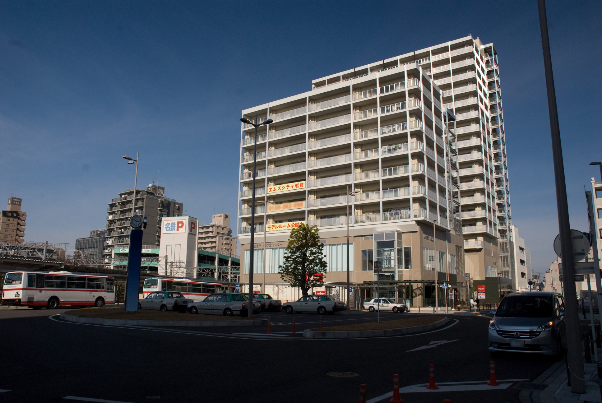 Sakurand Iwakura